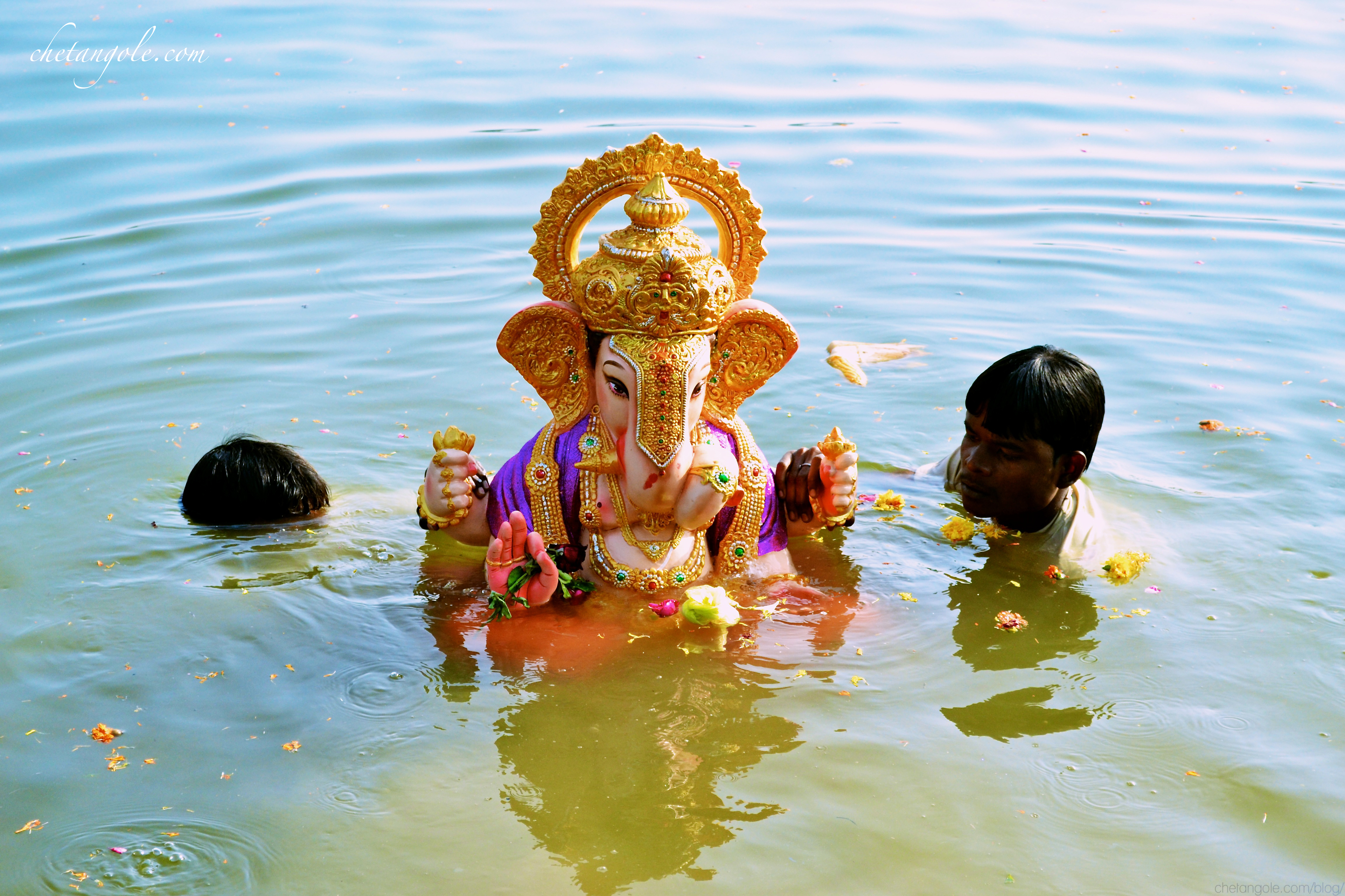 Ganesha, Ganpati, Ganapati being immersed at the end of Ganesh Chaturthi festival. Immersion of clay statues back into waters of rivers, lakes or ocean is a historic tradition in India. It became a major competitive event during colonial era British India, with Muslims observing colorful Tazia (Taboot) procession and immersion during Ashura Muharram, and Hindus observing goddess or god procession and immersion.